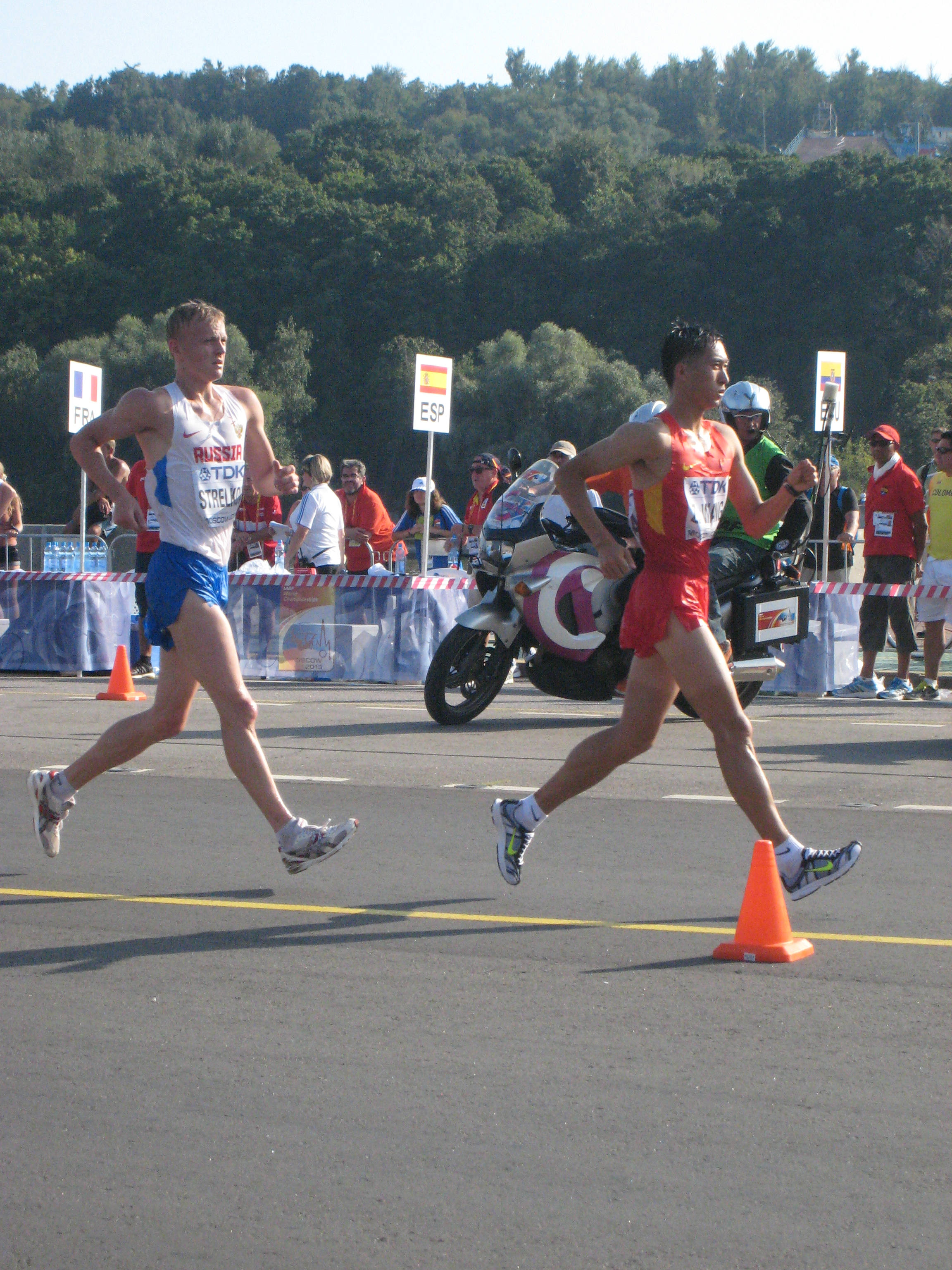 2013 IAAF World Champiomships in Moscow. 20 km walk men. Zhen Wang (CHN), Denis Strelkov (RUS)